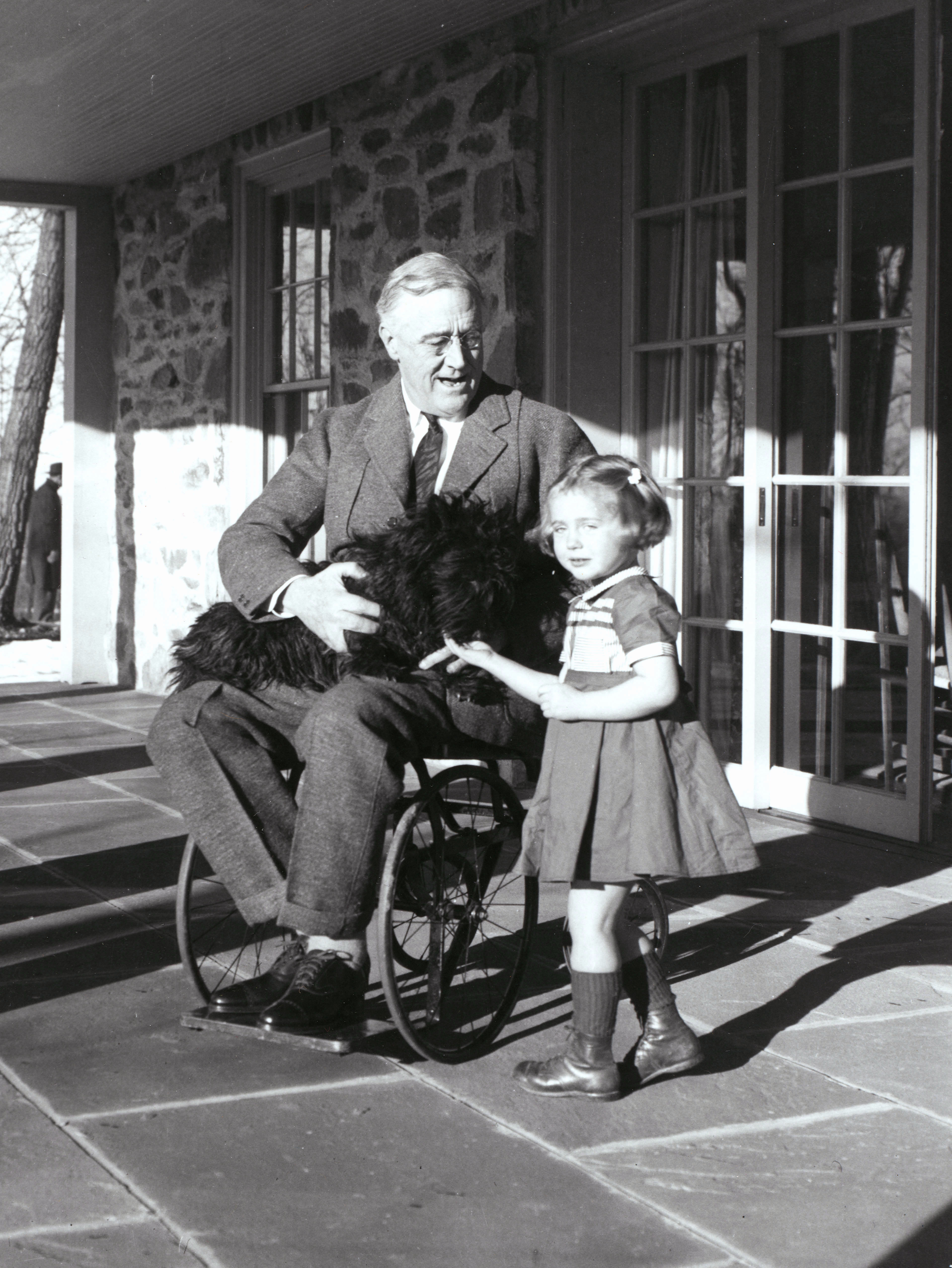 Franklin D. Roosevelt, Fala and Ruthie Bie at Hill Top Cottage in Hyde Park, N.Y. The better of two extant photos of FDR in a wheel chair.